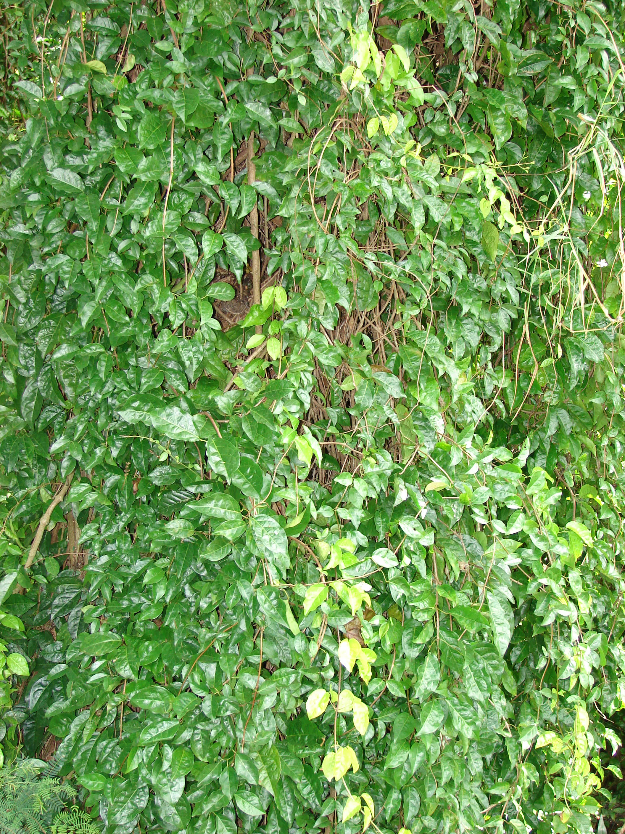 Macfadyena unguis-cati (habit). Location: Maui, Hana